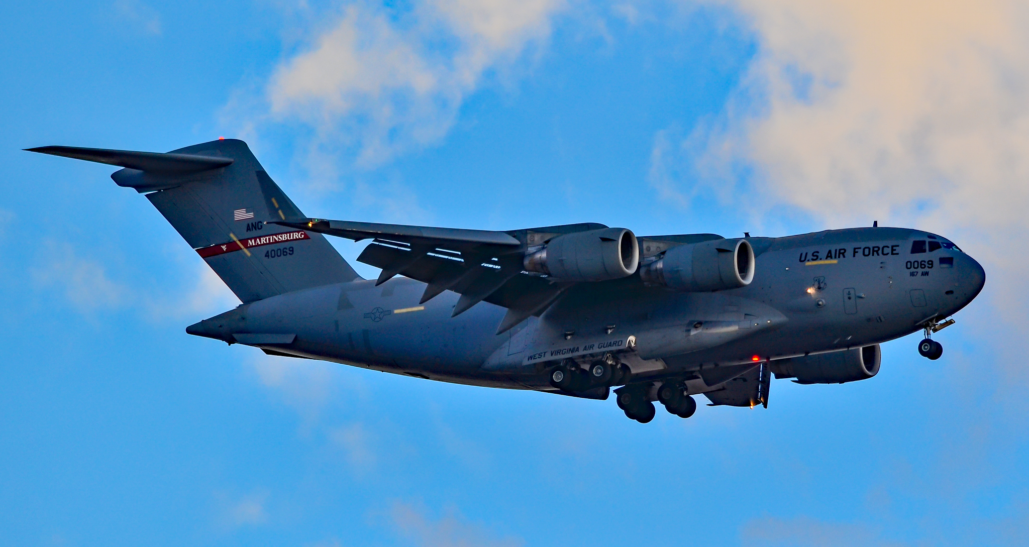 Las Vegas - Nellis AFB (LSV / KLSV) USA - Nevada, February 22, 2017 Photo: TDelCoro